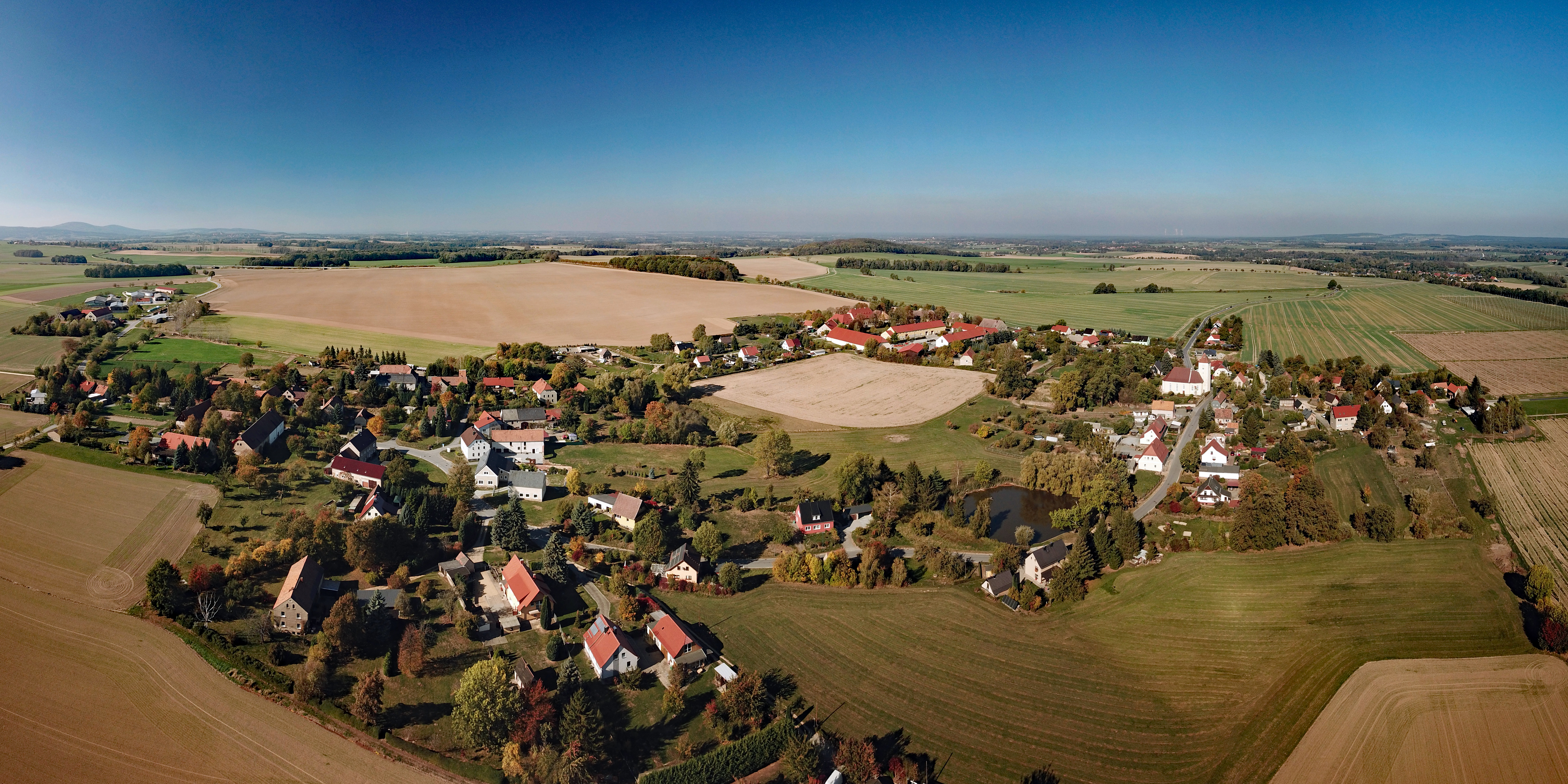 Nostitz (Weißenberg, Saxony, Germany) Hornjoserbsce: Powětrowy wobraz Nosaćic pola Wósporka